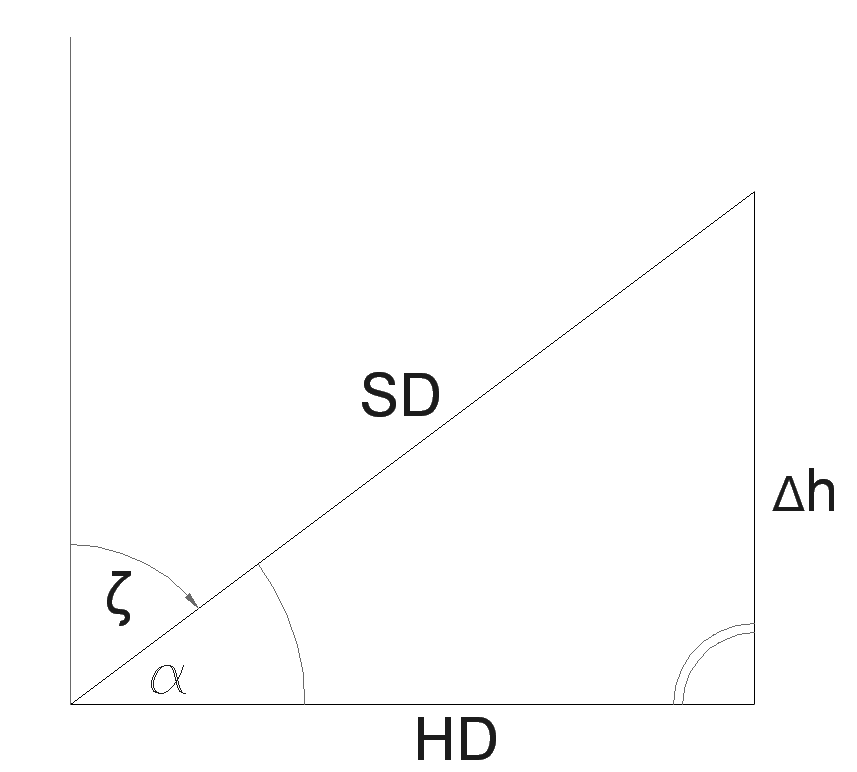 Diagram of simple slope correction. HD = horizontal distance, SD = slope distance, Δh = height of the slope, α = slope angle, ζ = vertical (zenith) angle.